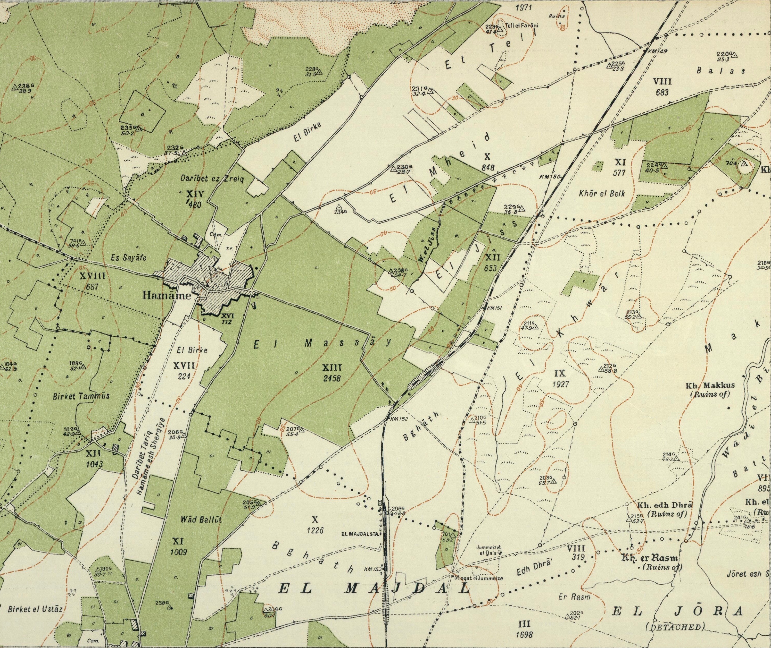 Hamada 1930 1:20,000